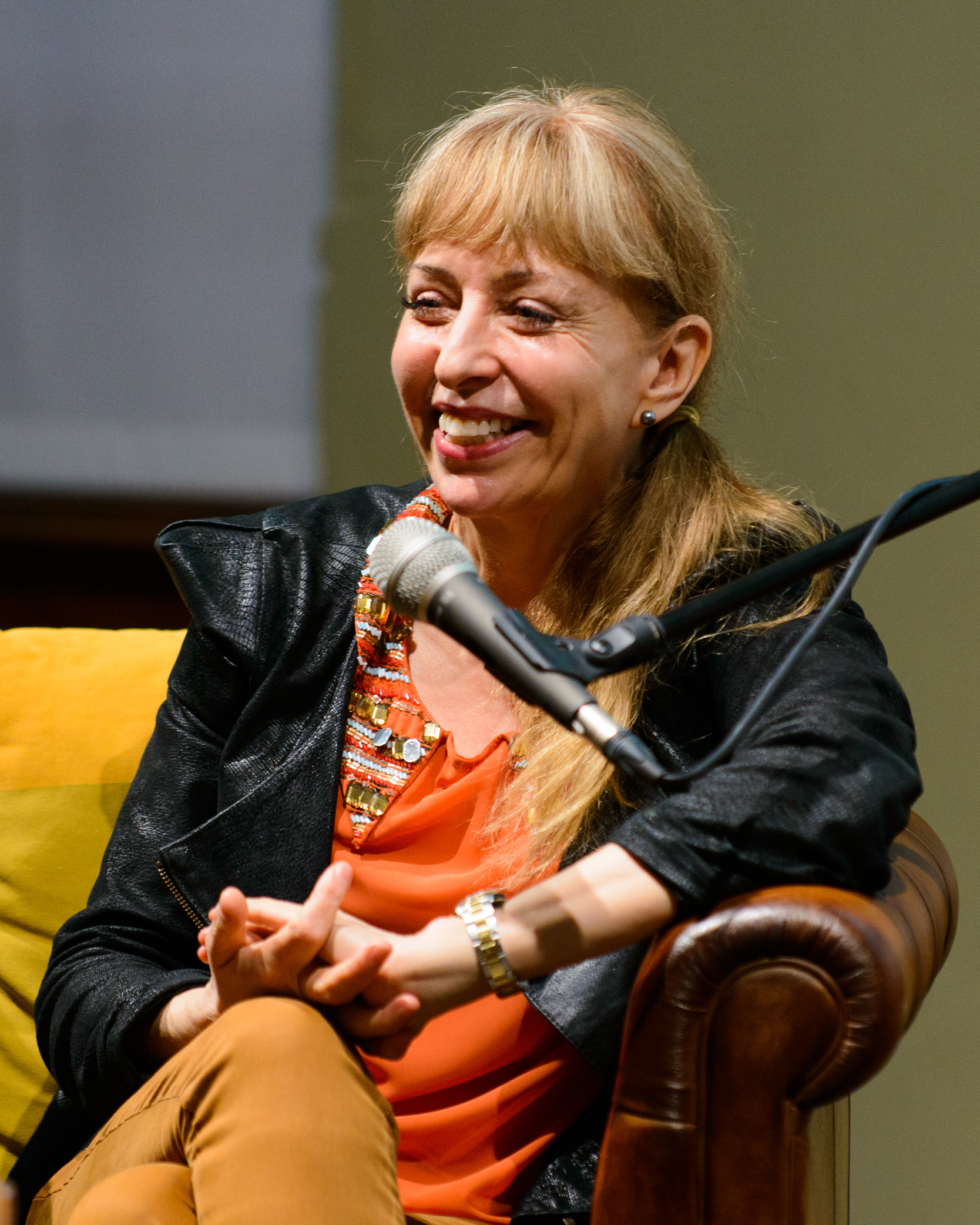 Baroness Susan Greenfield Pierhead Session in collaboration with the British Council / Y Farwnes Susan Greenfield Sesiwn y Pierhead mewn cydweithrediad â’r British Council